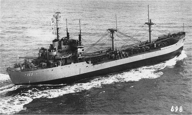 A post-war image of USS Alcona (AK-157) underway, date and location unknown. Note her armament has been removed. US Navy photo